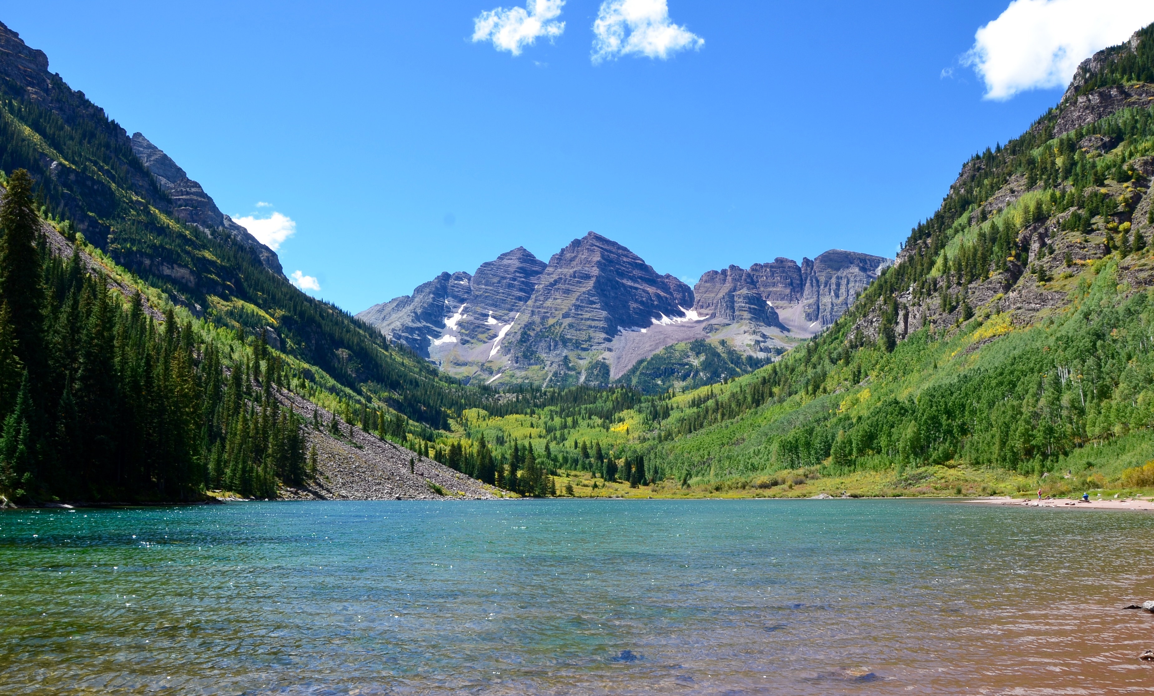 Maroon Bells, Aspen, CO during Labor Day weekend 2016